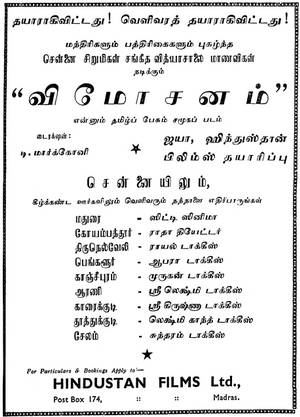 An advertisement for the 1939 Indian film Vimochanam